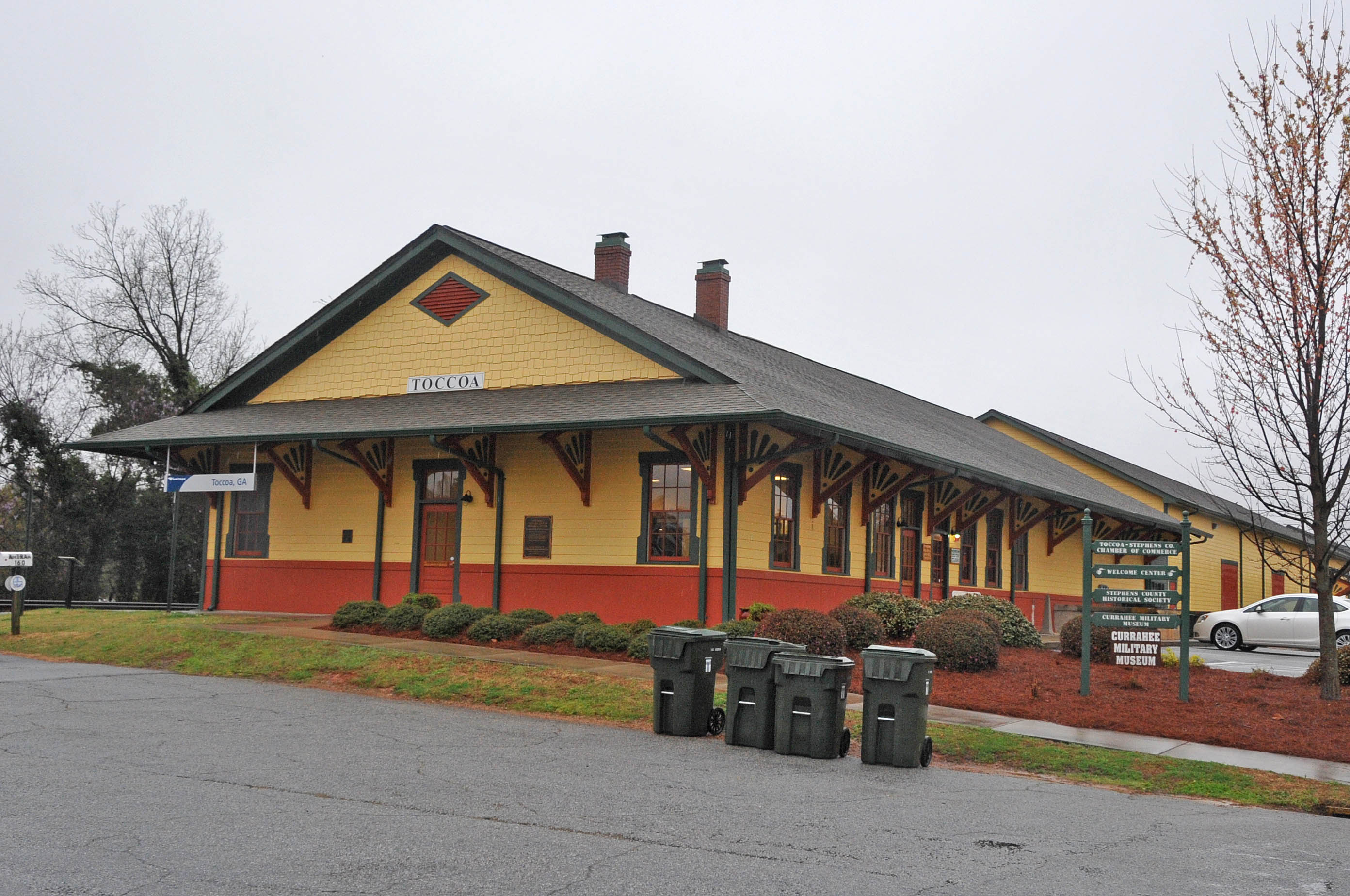 RAILROAD DEPOT BUILT IN 1915 AND NOW THE HISTORICAL SOCIETY AND MUSEUM; A KEY CONTRIBUTING SITE IN THE HISTORIC DISTRICT